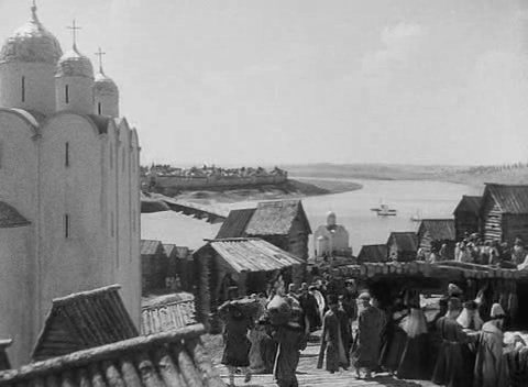 Panorama of Novgorod. Screenshot from Alexander Nevsky (released 1938) of Sergej Michajlovič Ejzenštejn (1898-1948)